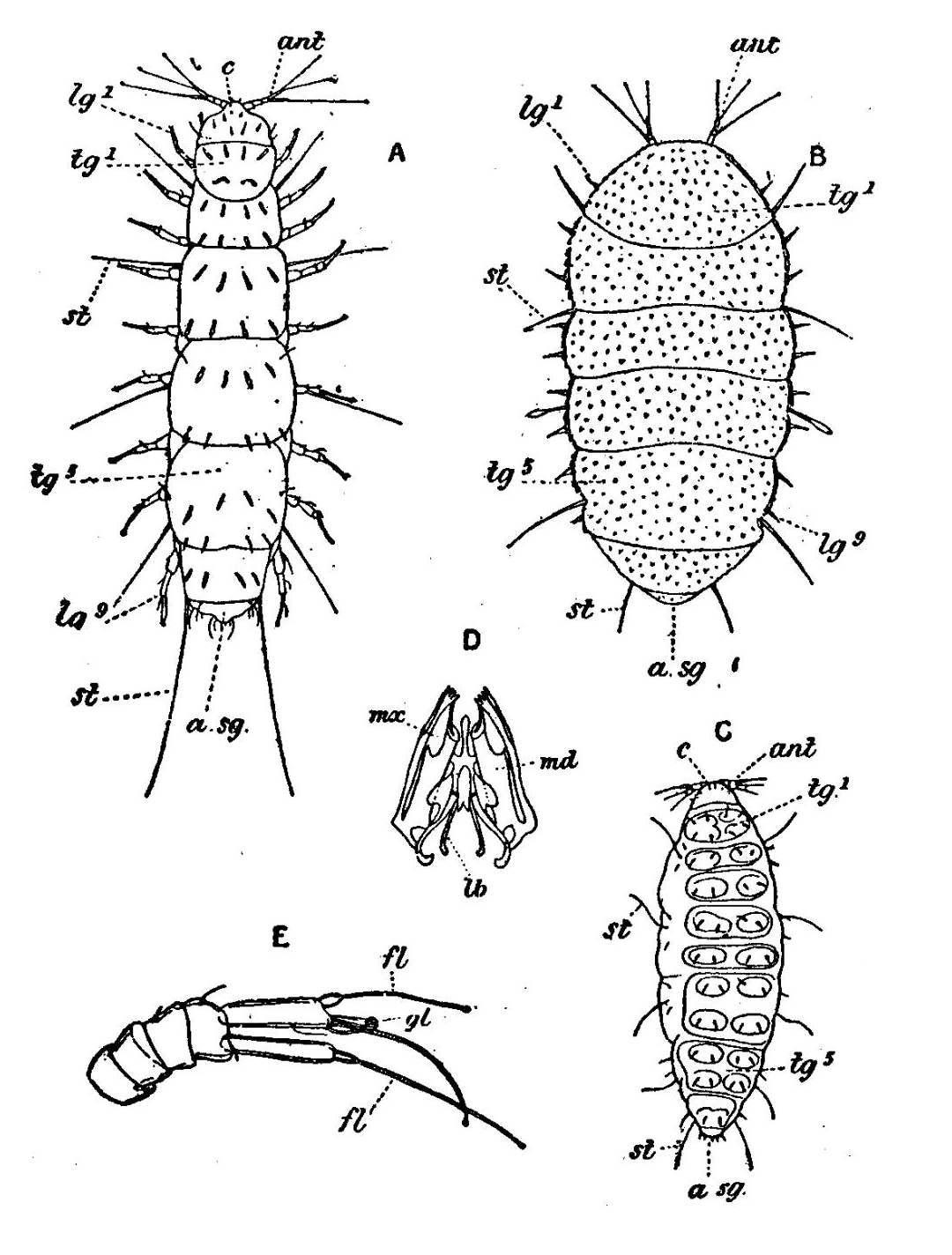 A. Pauropus huxleyi (?). c, head; ant. antenna; tg1 and tg5, first and fifth double tergal plates; lg1, first walking-leg (=2nd post cephalic appendage); lg9, ninth walking-leg; a.sg, anal segment; st, setae. B. Eurypauropus spinosus. Lettering as in A. C. Brachypauropus superbus. Lettering as in A and B; (tg1)= first and second terga; tg5, =ninth and tenth terga. D. Jaws of Pauropus huxleyi; md, mandible; mx, maxilla; lb, labial framework. E. Antenna of Eurypauropus spinosus; fl, flagella; gl, sensory organ.